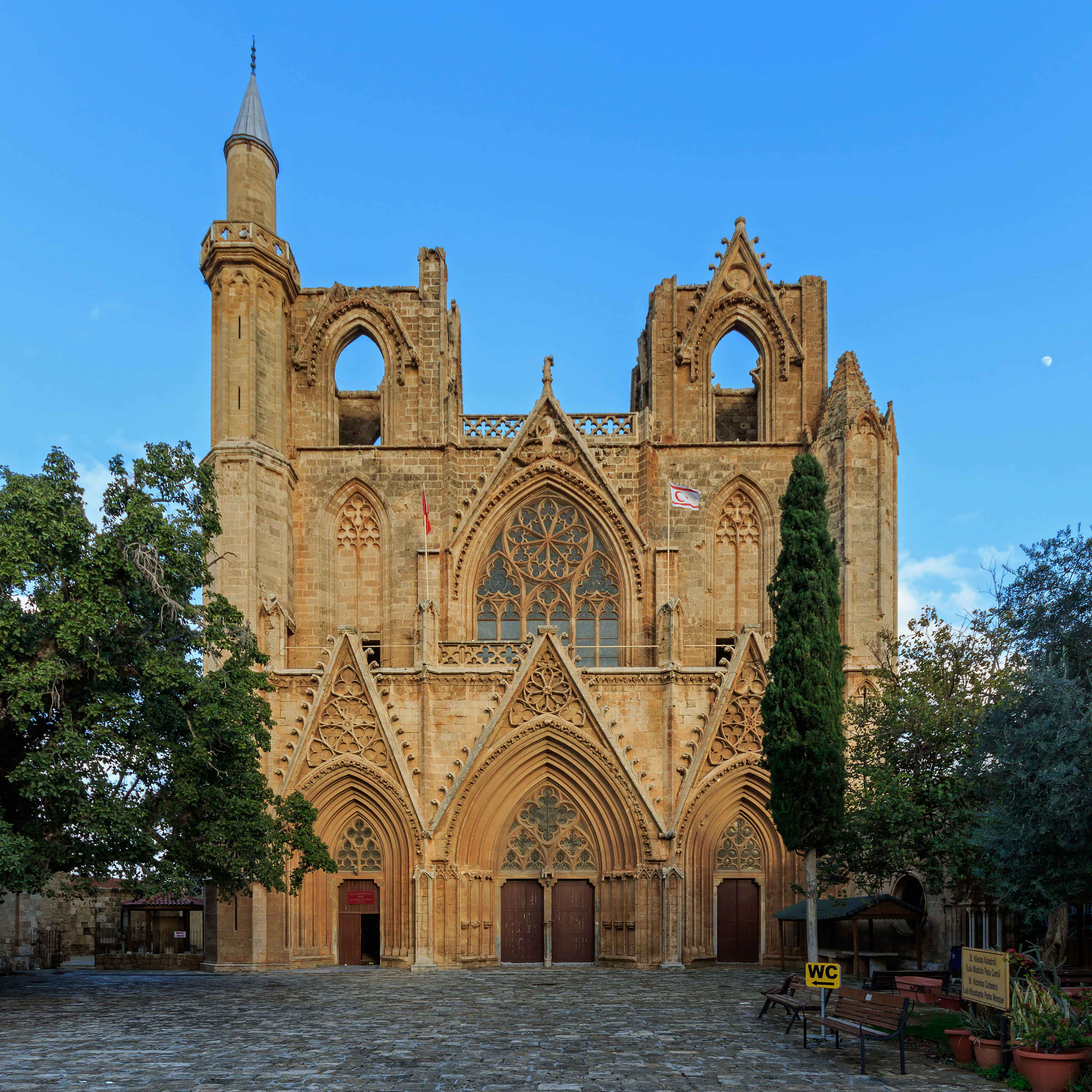 Lala Mustafa Pasha Mosque (former St. Nicholas Cathedral) in Famagusta, Cyprus